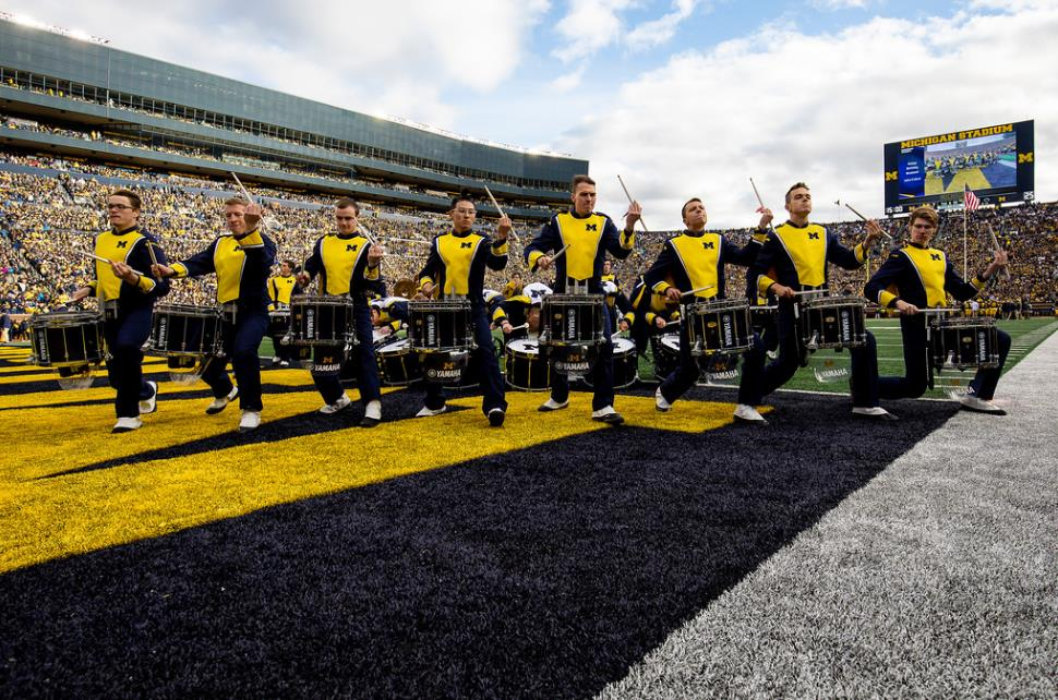 Intermission Drumline Performance